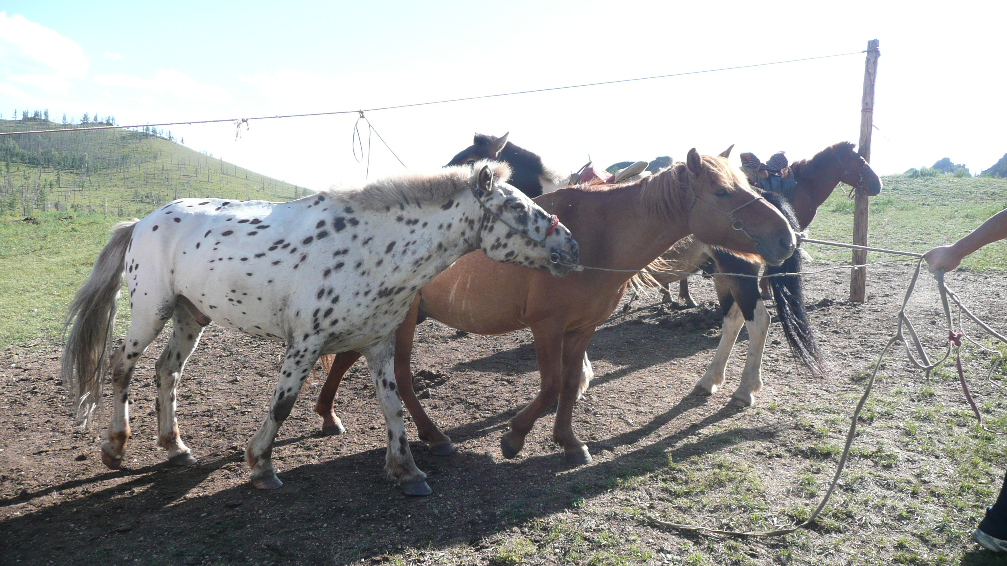 Mongolian horses